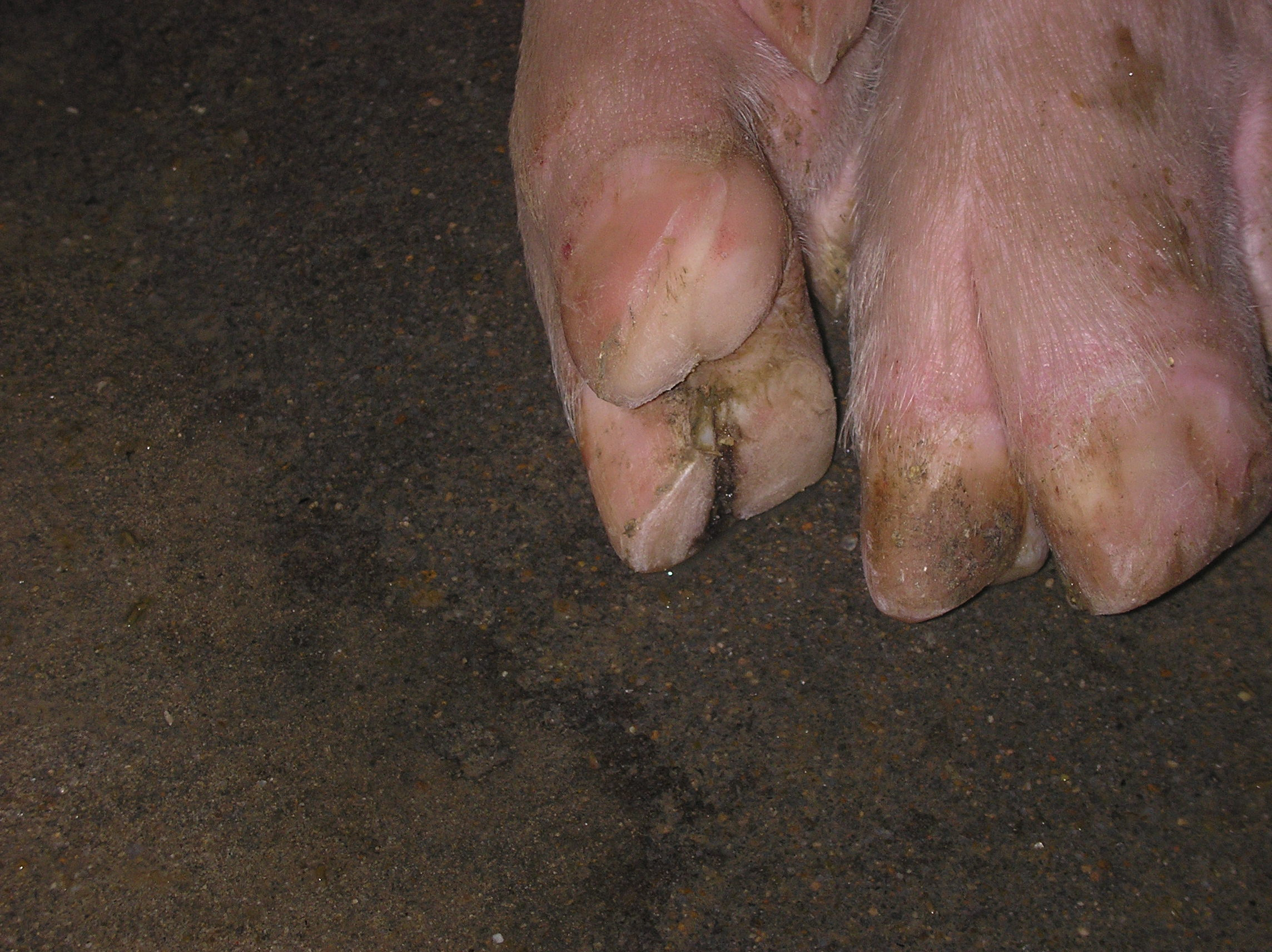 a pig with foot pad abrasions